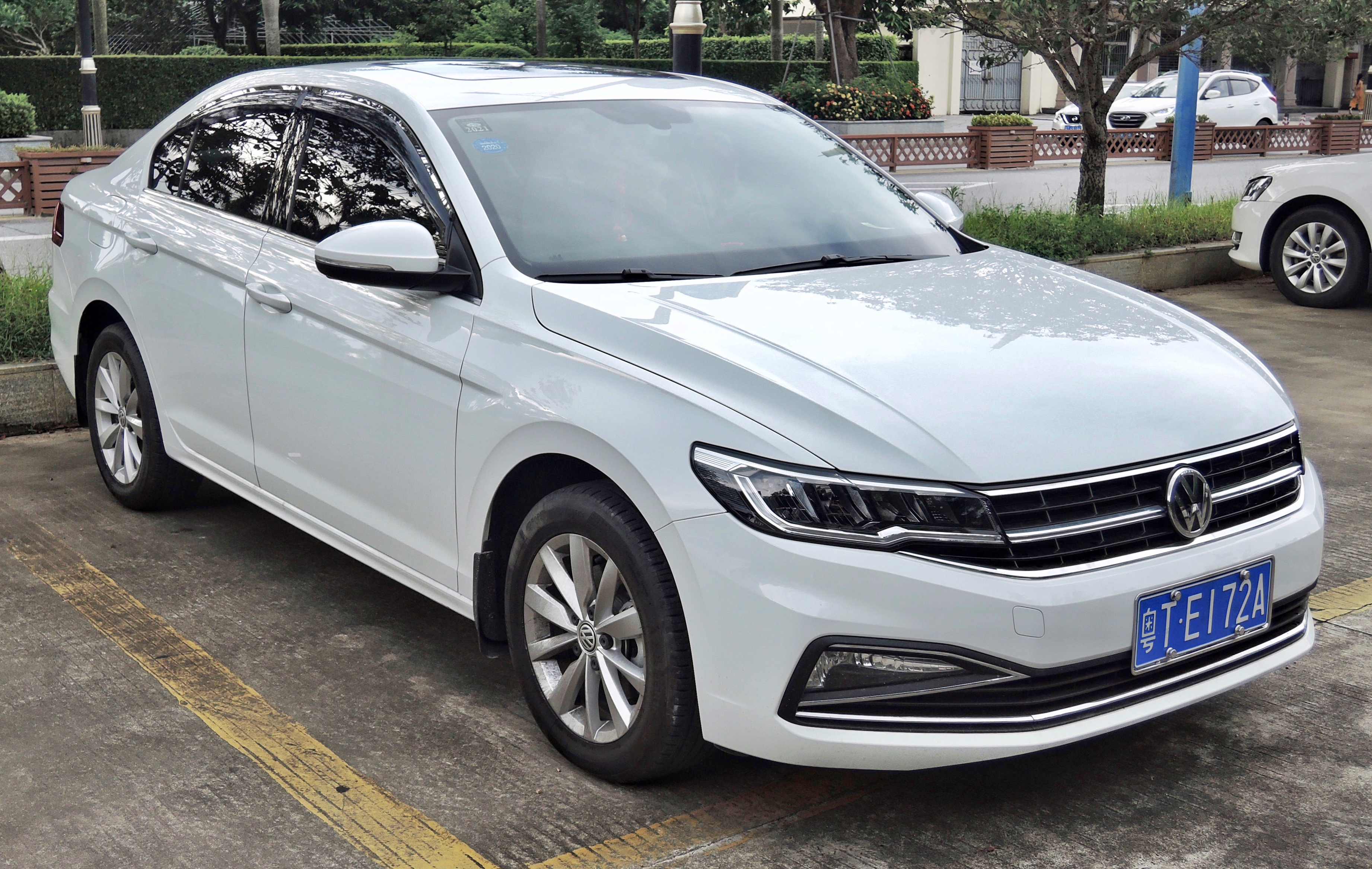 A 2019 FAW-Volkswagen Bora taken in Zhongshan, Guangdong province, China. 中文（中国大陆）: 一辆2019年的一汽大众宝来，摄于中国广东省中山市。